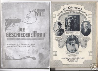 Programme from a 22 April 1910 production in Munich of Die geschiedene Frau